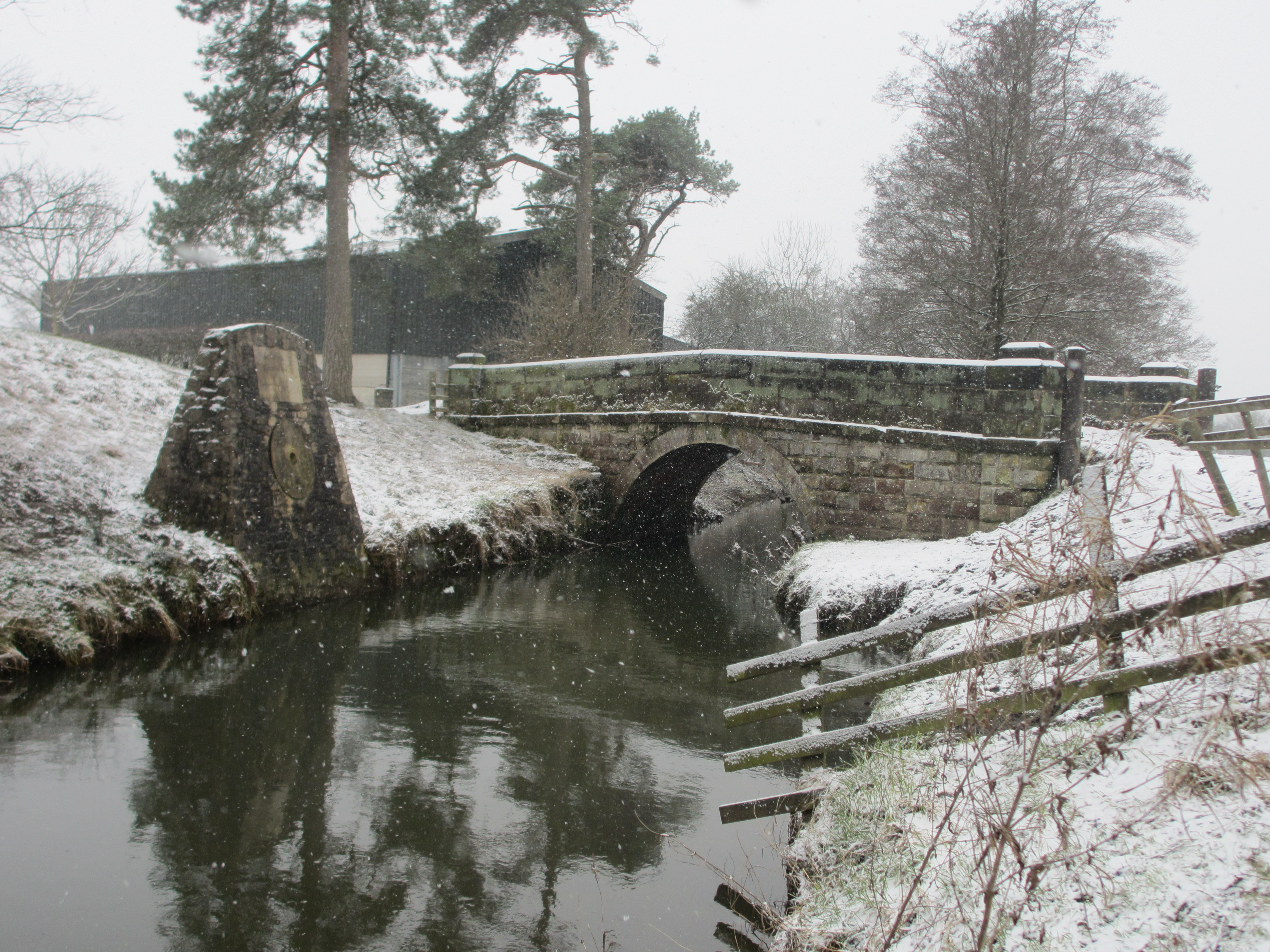 Up'Ards purpose-built goal at Sturston Mill up stream from the plinth at Shawcroft on Ash Wednesday 2013